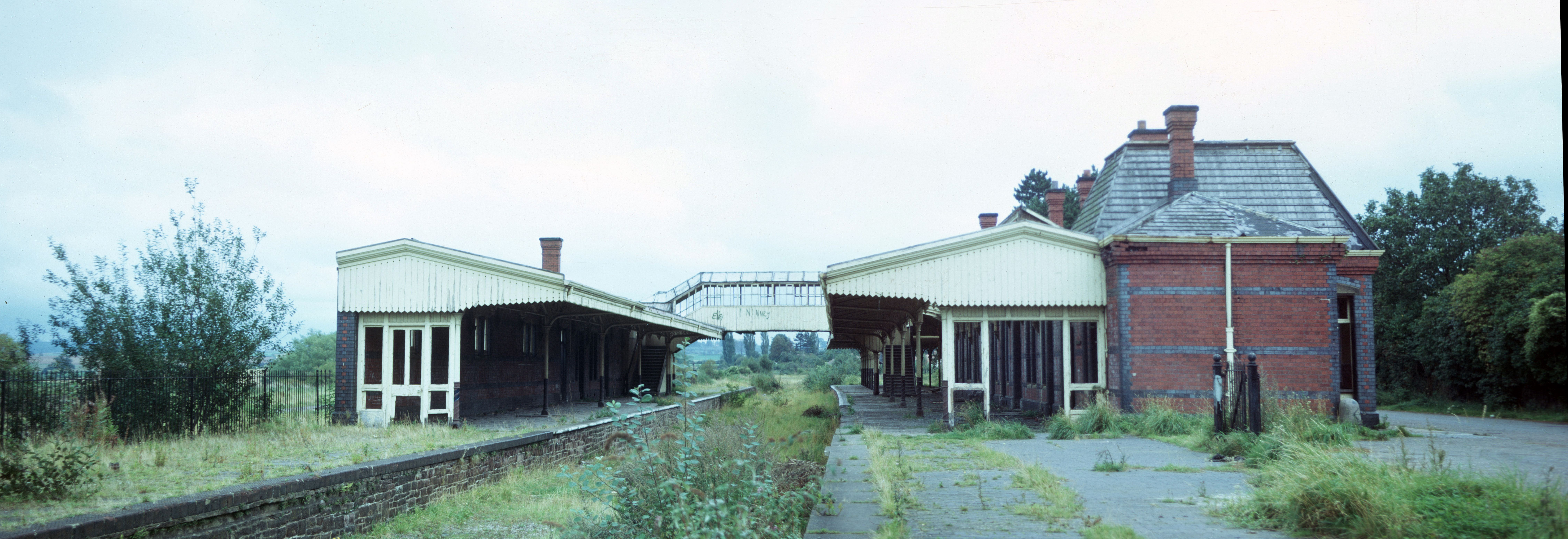 This is a panorama created with Microsoft Image Composite Editor. It is created from the images Ross-on-Wye station 1974.jpg and Ross-on-Wye Railway Station 1974 (2).jpg. These two photos were taken by me and depict the disused station in September 1974. The stitched version was created by me 16 November 2013.